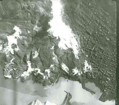 Copious steam rises from the lava flows as sea water is sprayed on them